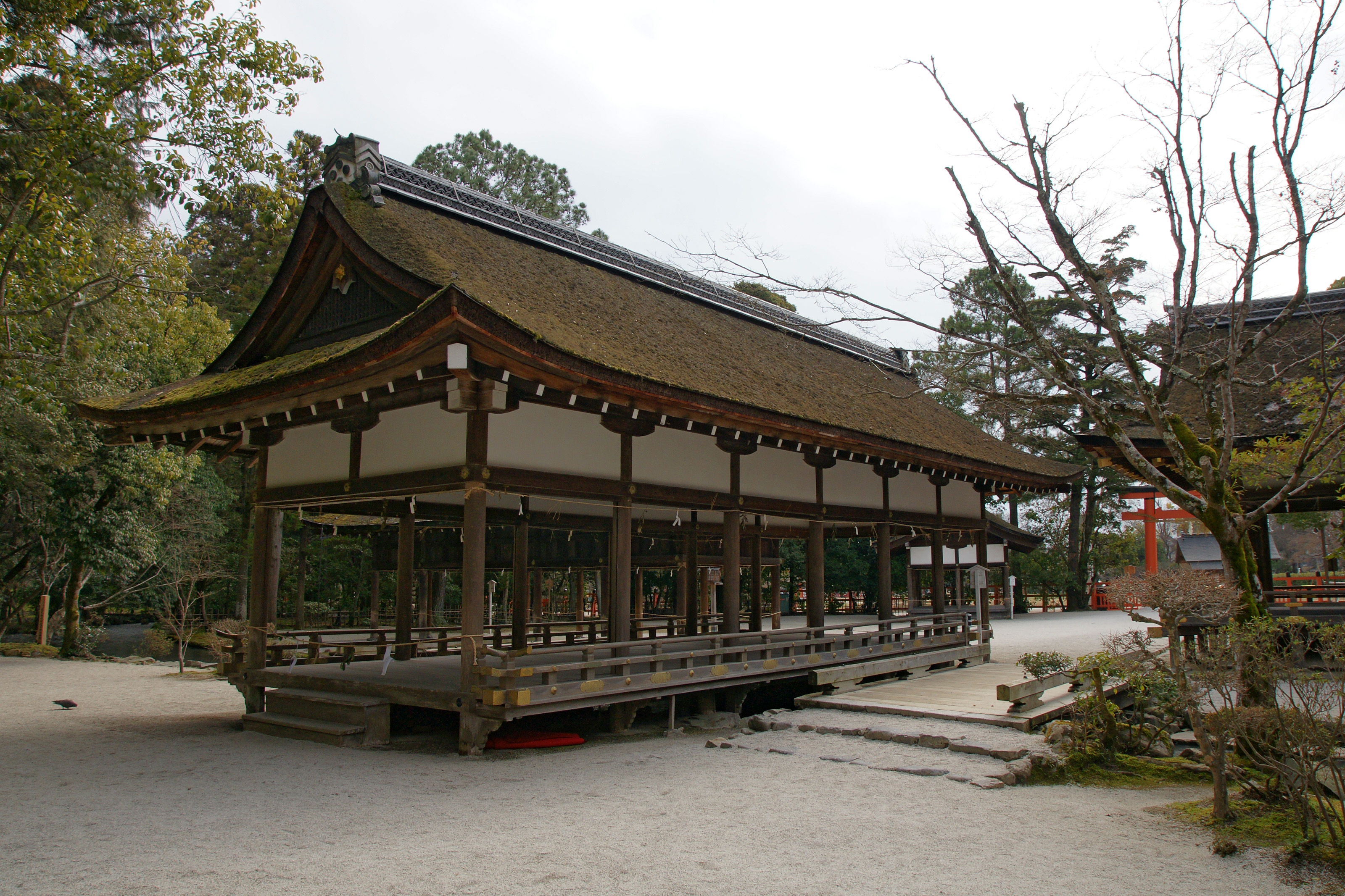 Kamowakeikazuchi-jinja (Kamigamo-jinja) in Kita-ku, Kyoto, Kyoto Prefecture, Japan